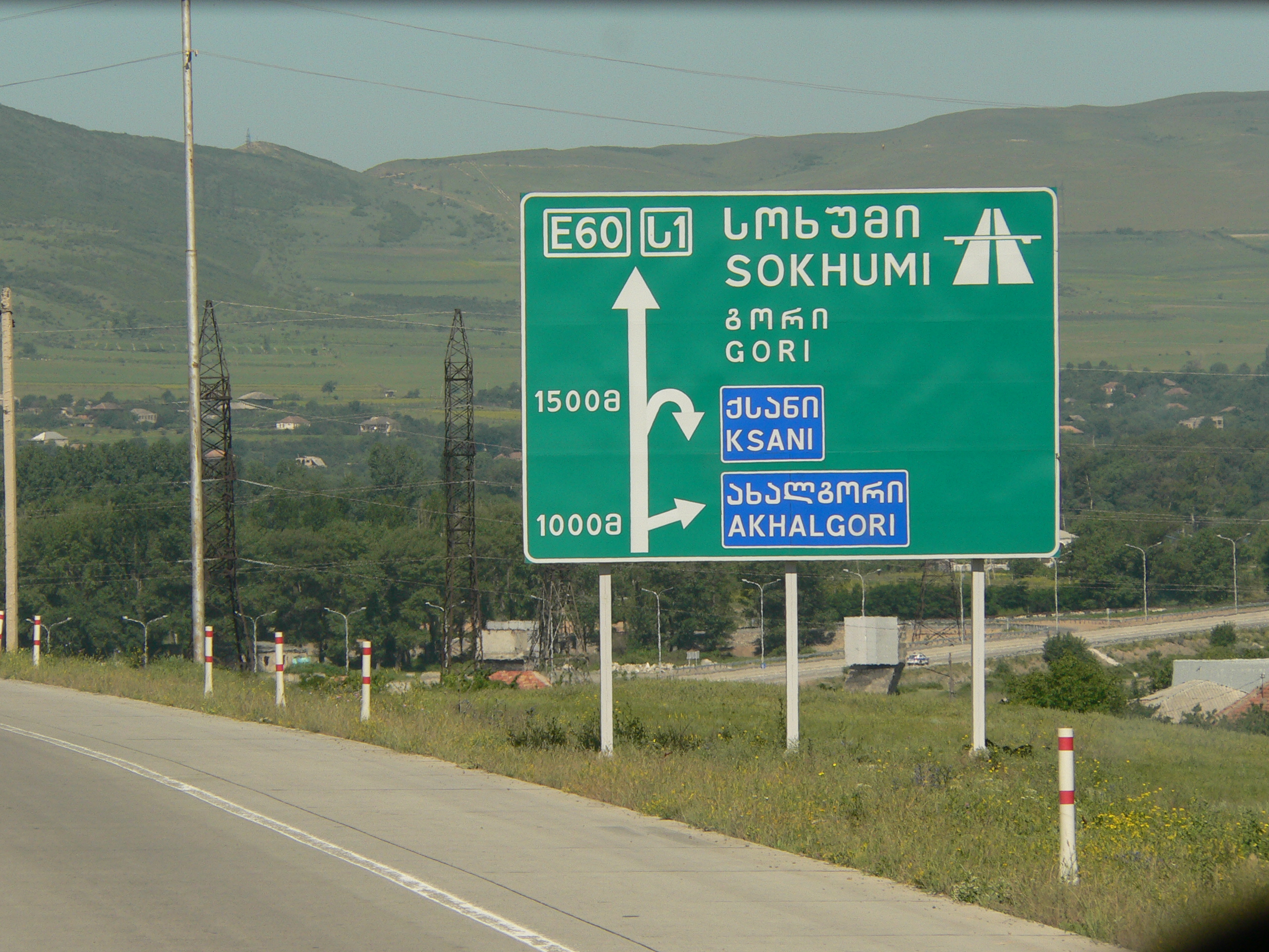 Georgian road sign on motorway S1/E60 from Tbilisi heading towards Gori. Showing Road numbers (S1/E60), as well as place names in both Georgian and Latin alphabet.